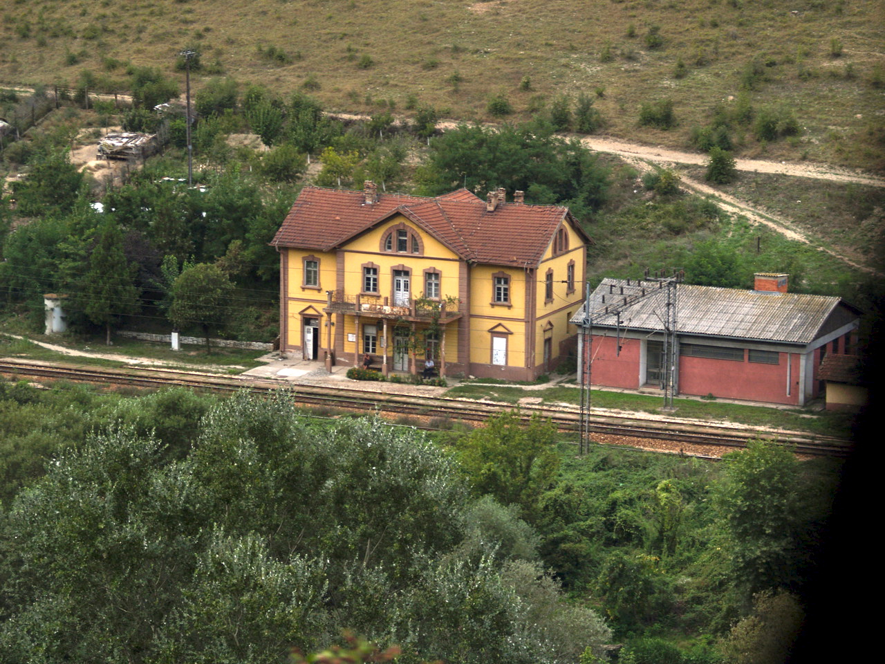 Train station in Macedonia